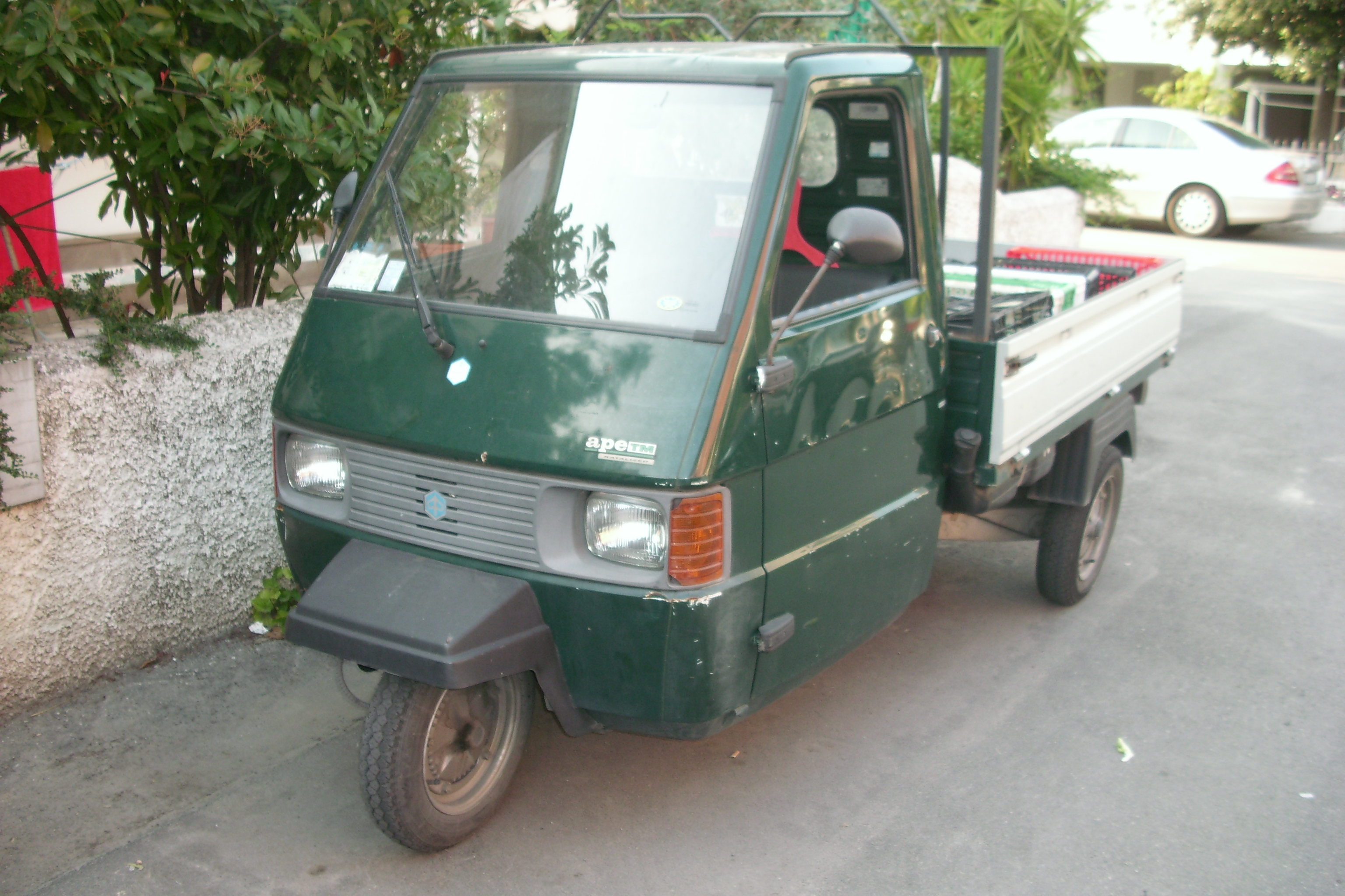 It is a Piaggio Ape, which was photographed in Cesenatico (Italy).